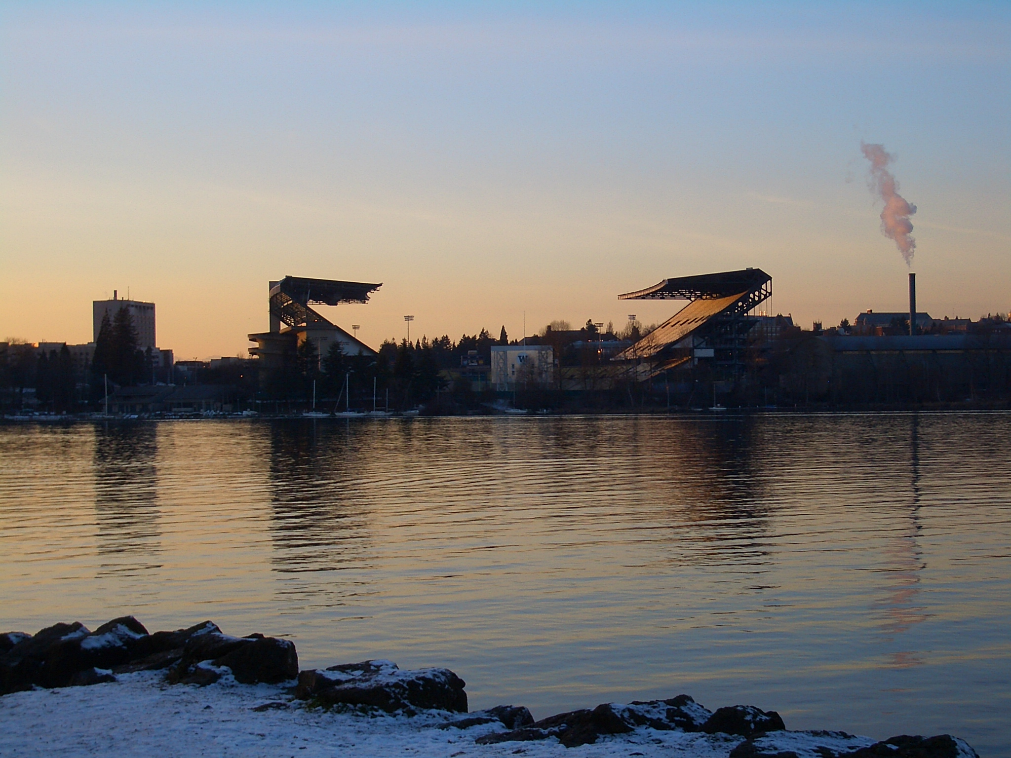 Looking north across Union Bay, from Union Bay Natural Area to UW Husky Stadium.